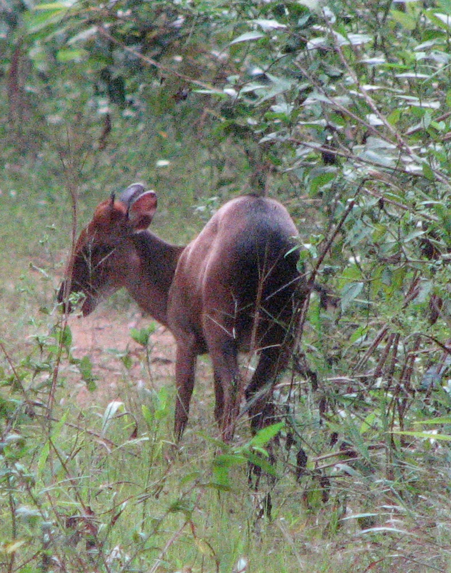 Peters's Duiker (Cephalophus callipygus), shot from behind amongst vegetation. Campo Ma'an National Park, Cameroon. 14-06-08.